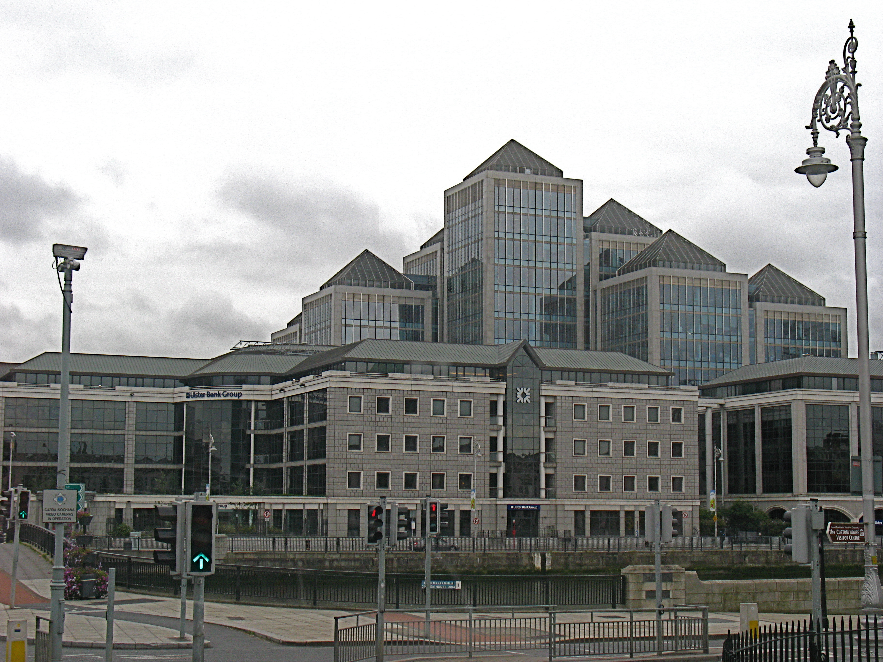 A view of the Headquarters of Ulster Bank on Georges Quay in Dublin.